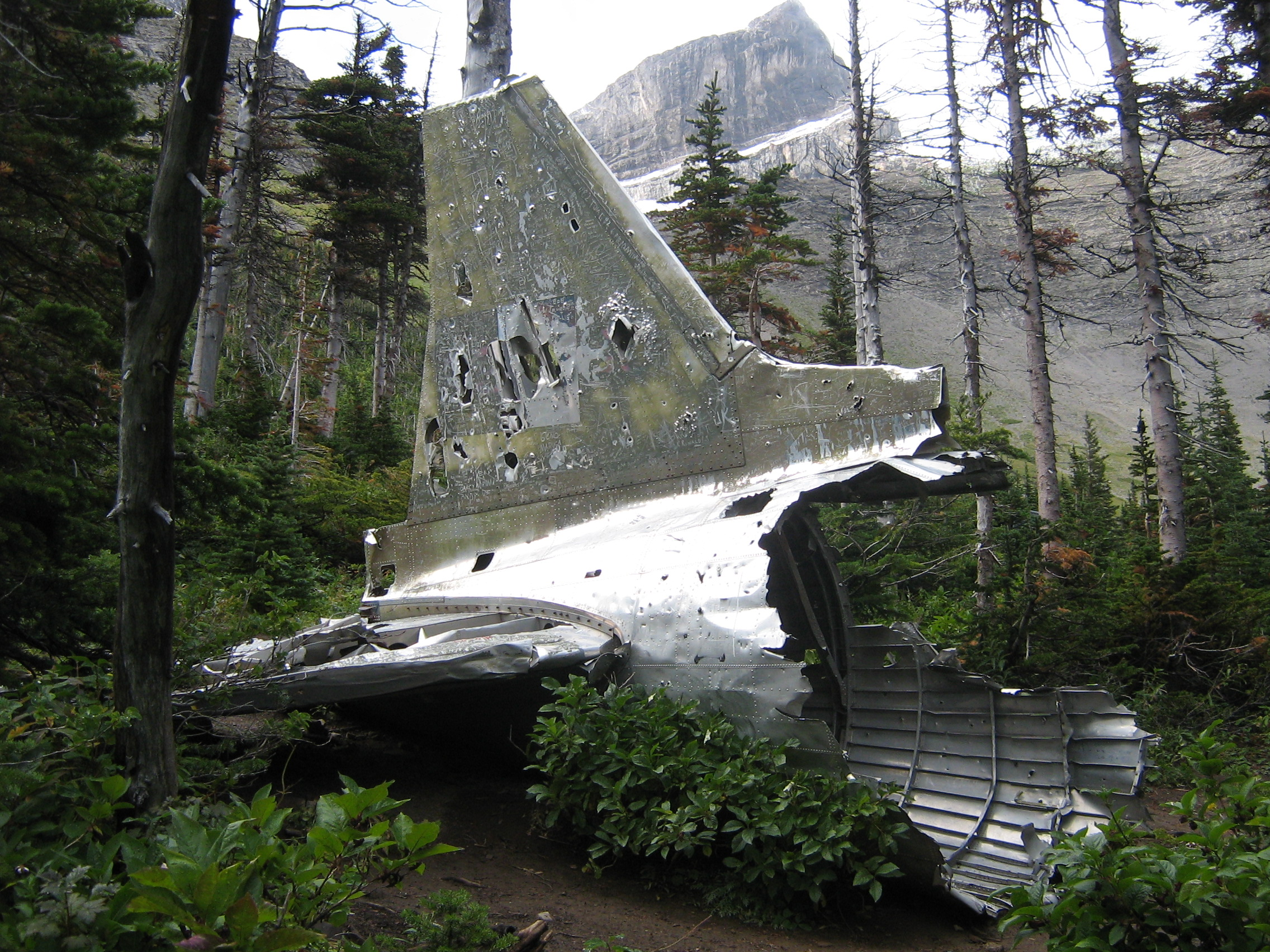 Dakota Plane Crash - 1946 The remains of a crashed Royal Canadian Air Force DC-3 Dakota airplane which crashed on January 19. 1946. more info